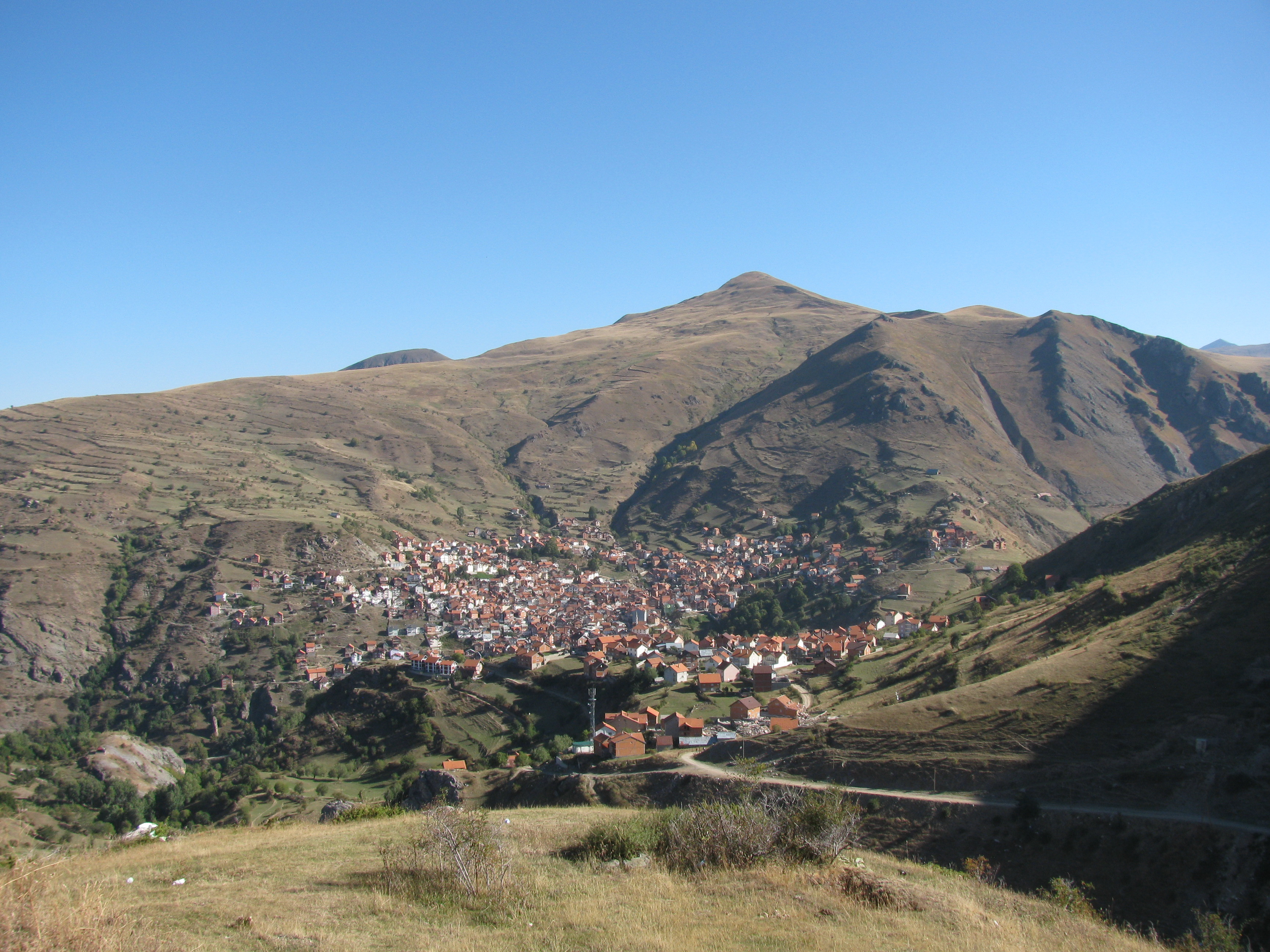 Restelica